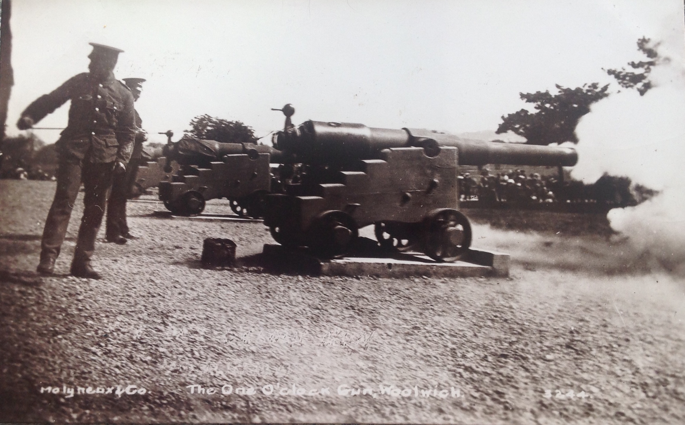 A 40 Pounder RBL Armstrong gun being fired as a time gun, Woolwich, c1905